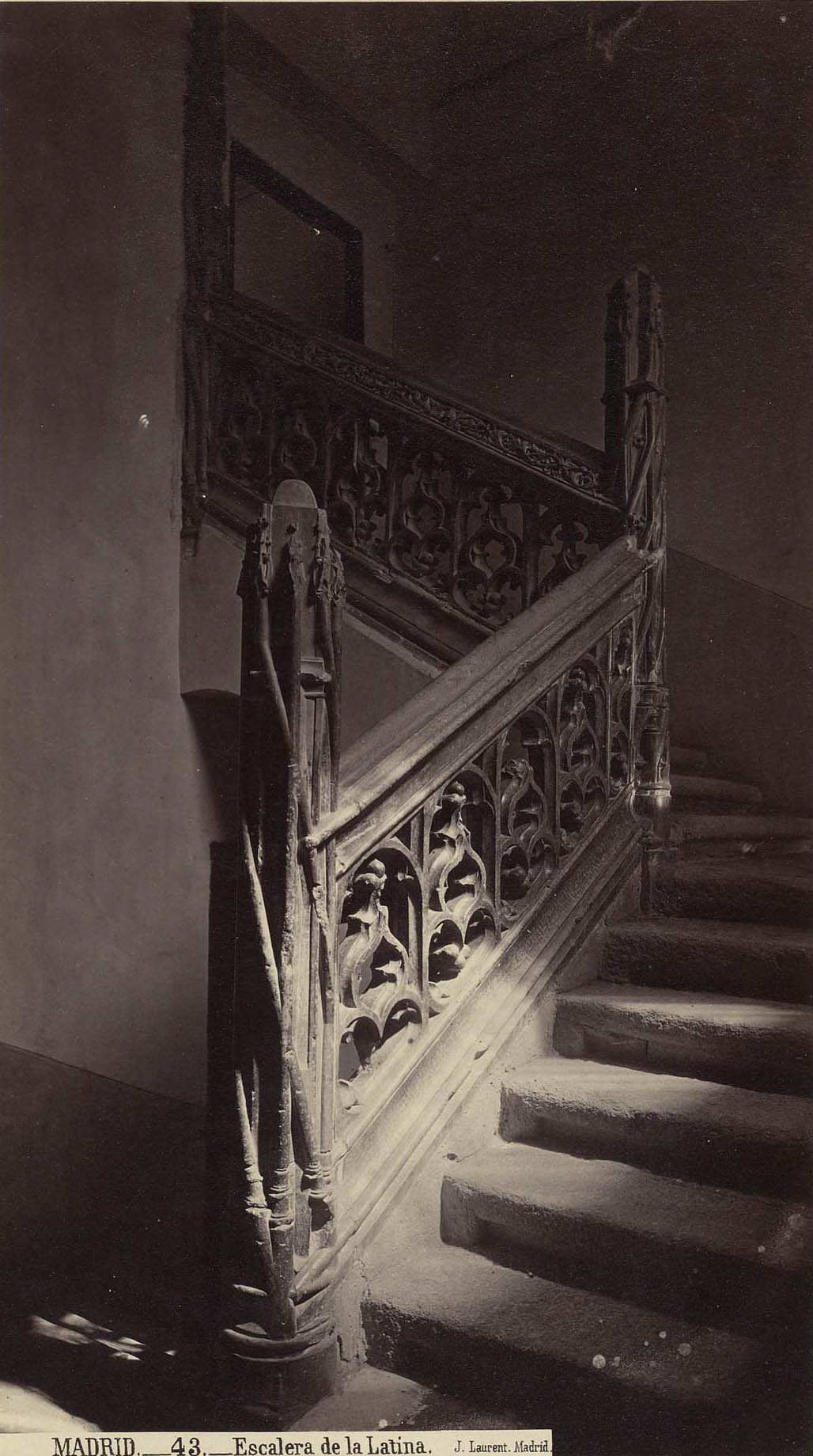 Escalera del Hospital de La Latina.